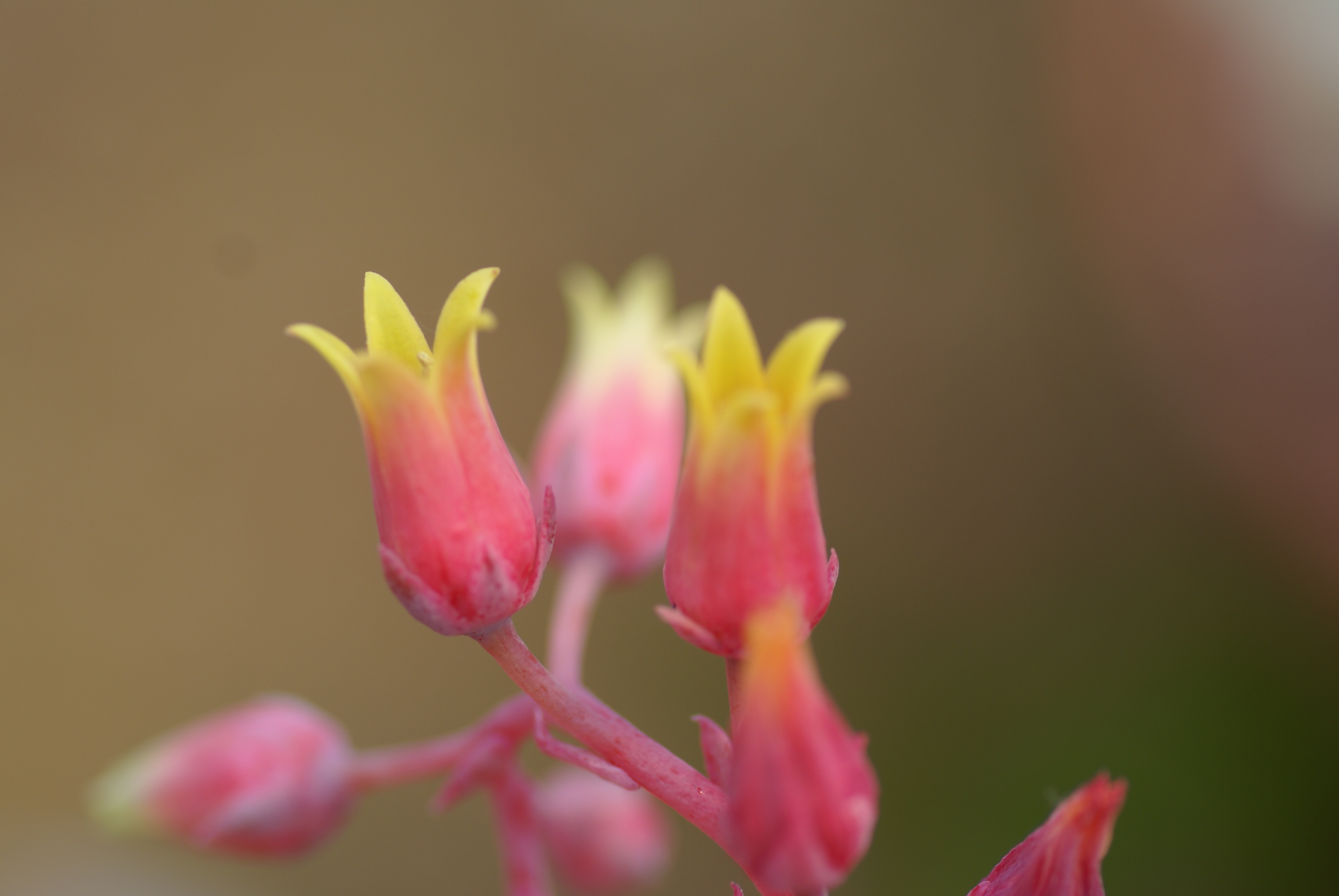 Plant species Echeveria agavoides in Göteborgs botaniska trädgård, Gothenburg, Sweden